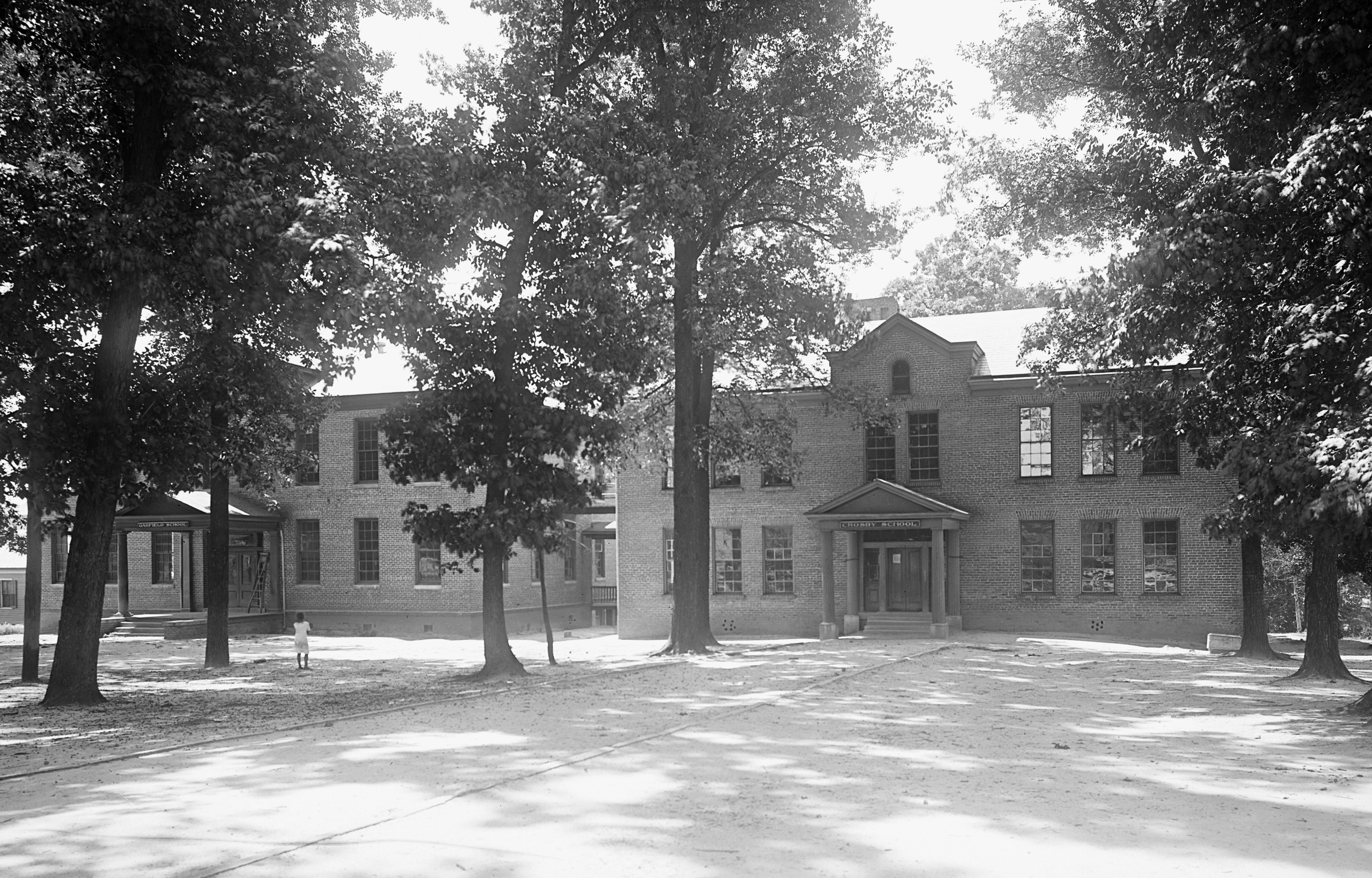 Crosby-Garfield School (1878, 1881, 1910, 1920) The East Raleigh School opened in 1878 on East Davie Street in a small frame structure. Noted African-American educator Charles N. Hunter served as headmaster. The school moved to a larger building on South Swain Street in 1881 and became known as the Garfield School. In 1897 the Raleigh school board purchased the J.W.B. Watson property (former residence of Gov. Jonathan Worth) on East Lenoir Street and refitted the mansion as the Crosby School. The new school was named for its benefactor, Henry C. Crosby, an African-American educator associated with Shaw University. In 1910 the old Garfield building on Swain Street was sold and a new two-story brick building erected adjacent to the Crosby School. The two schools were consolidated in 1920 as Crosby-Garfield School. The Garfield building was damaged by fire in 1935 and repaired; the Crosby building was demolished. In 1939 the Garfield building was replaced with a modern Crosby-Garfield School designed by noted Raleigh architect William Henley Deitrick. It still stands on East Lenoir Street. From the Albert Barden Collection, State Archives of North Carolina, Raleigh, NC.